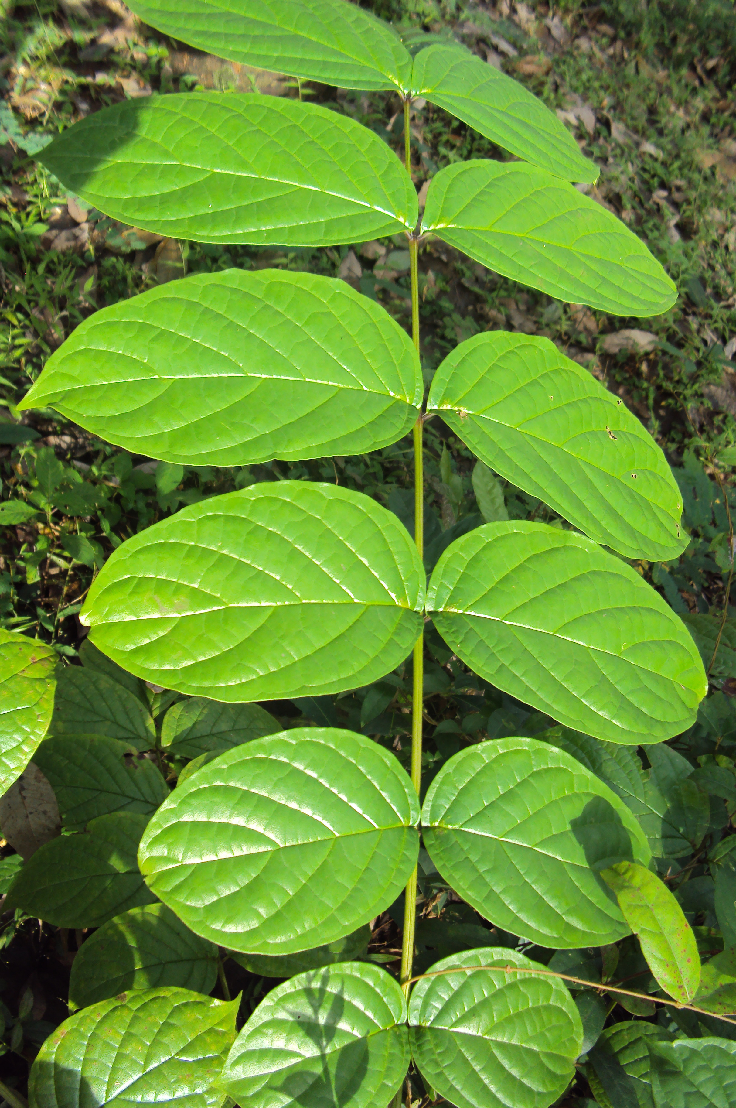 Pajanelia longifolia leaves